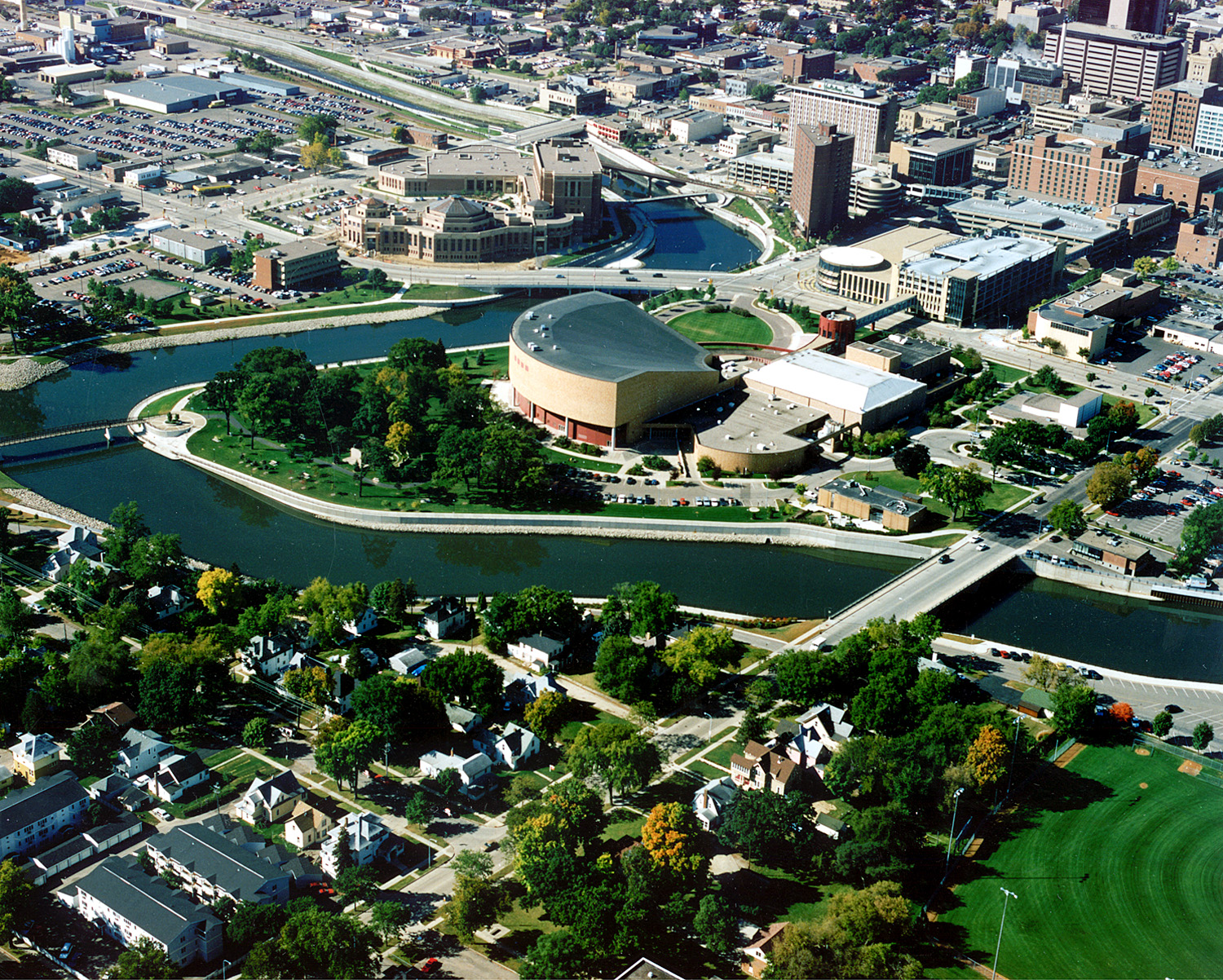 Aerial view of the city center of Rochester, Minnesota, USA. The South Fork of the Zumbro River winds its way through the center of town. The Rochester Art Center sits in the foreground in a bend in the river.